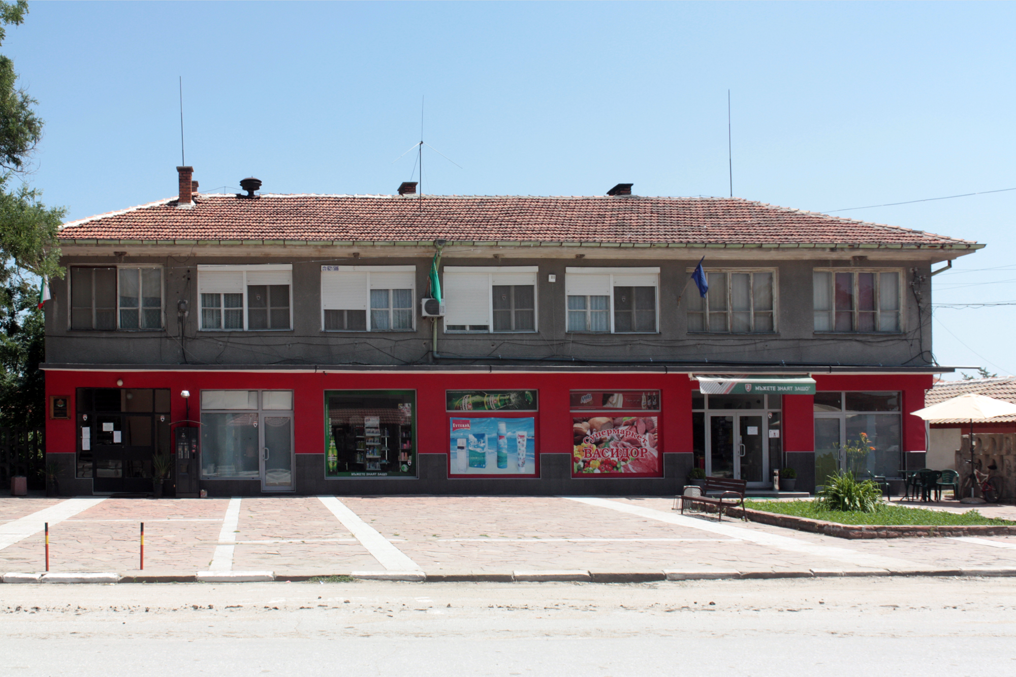 Stroevo Municipality (Townhall)